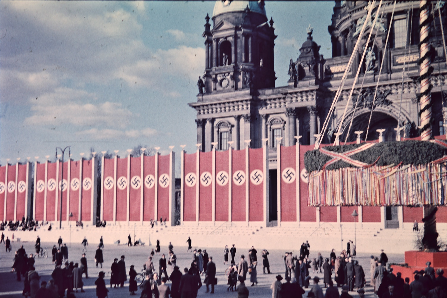 Berlin Cathedral (Berliner Dom).Decorated streets in Berlin, presumably Labour Day (May 1st). Large crowd, flags with swastika.